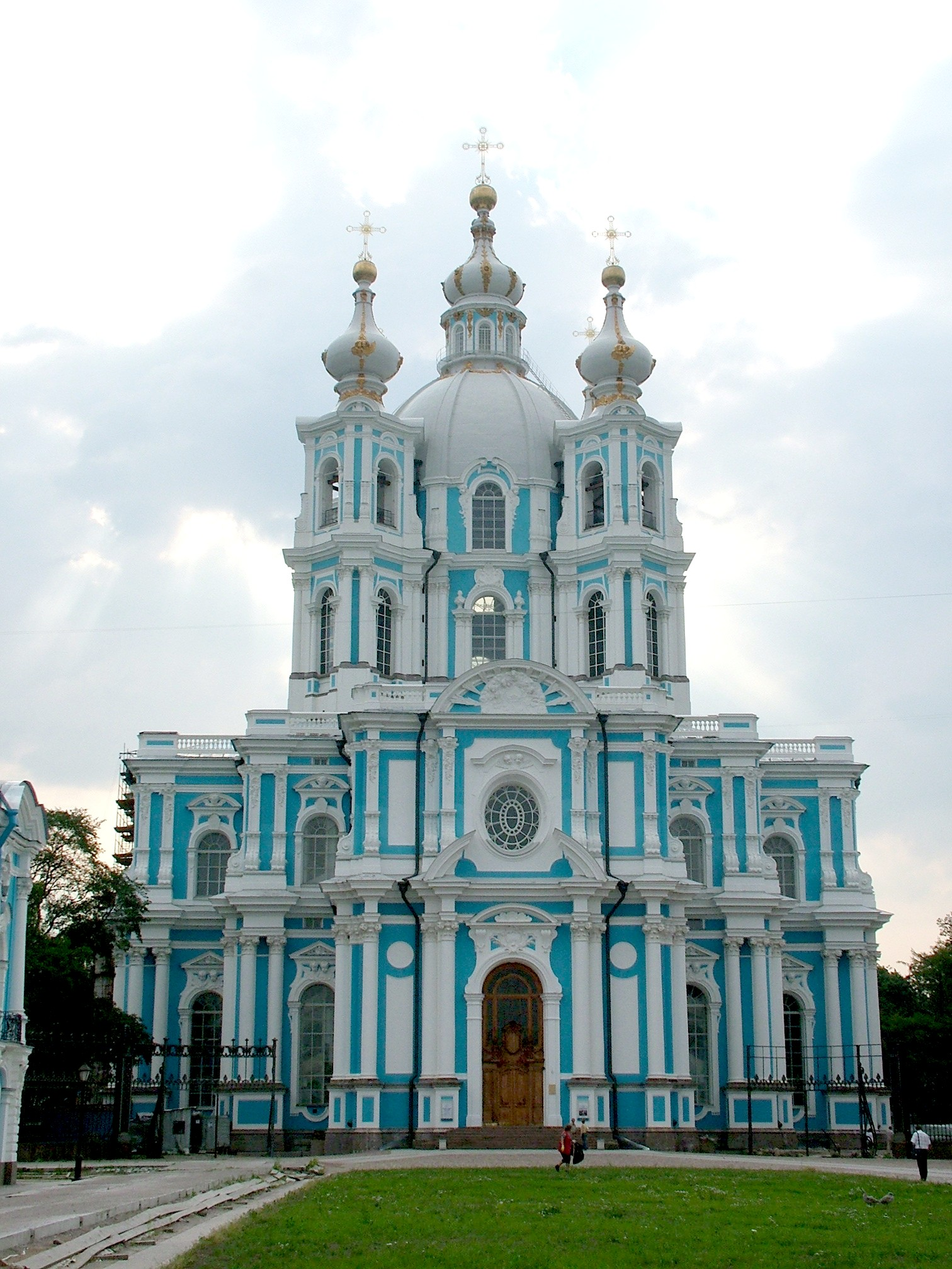 Smolny Convent. St.Petersburg, Russia.